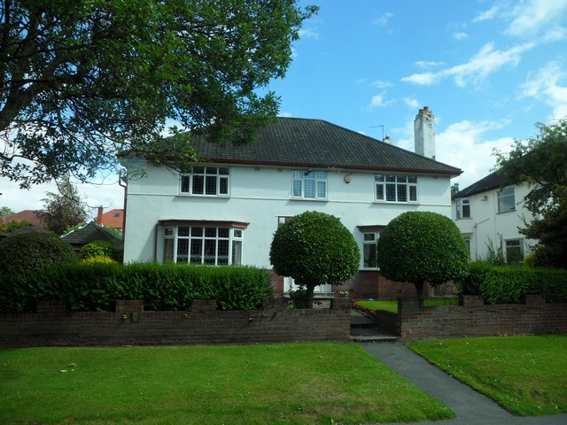 Brian Epstein's family home 3 km from Childwall, Liverpool, Great Britain The home in which the Beatles manager spent much of his life.